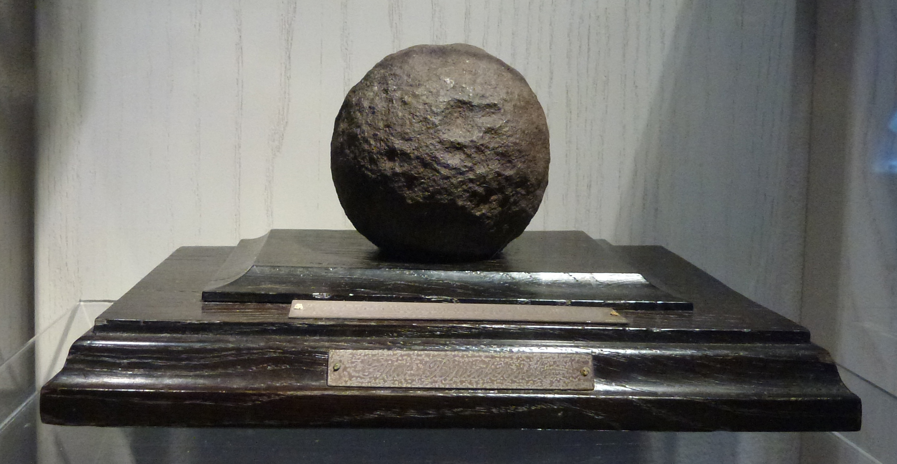 Canonball of Dutch ship Brederode